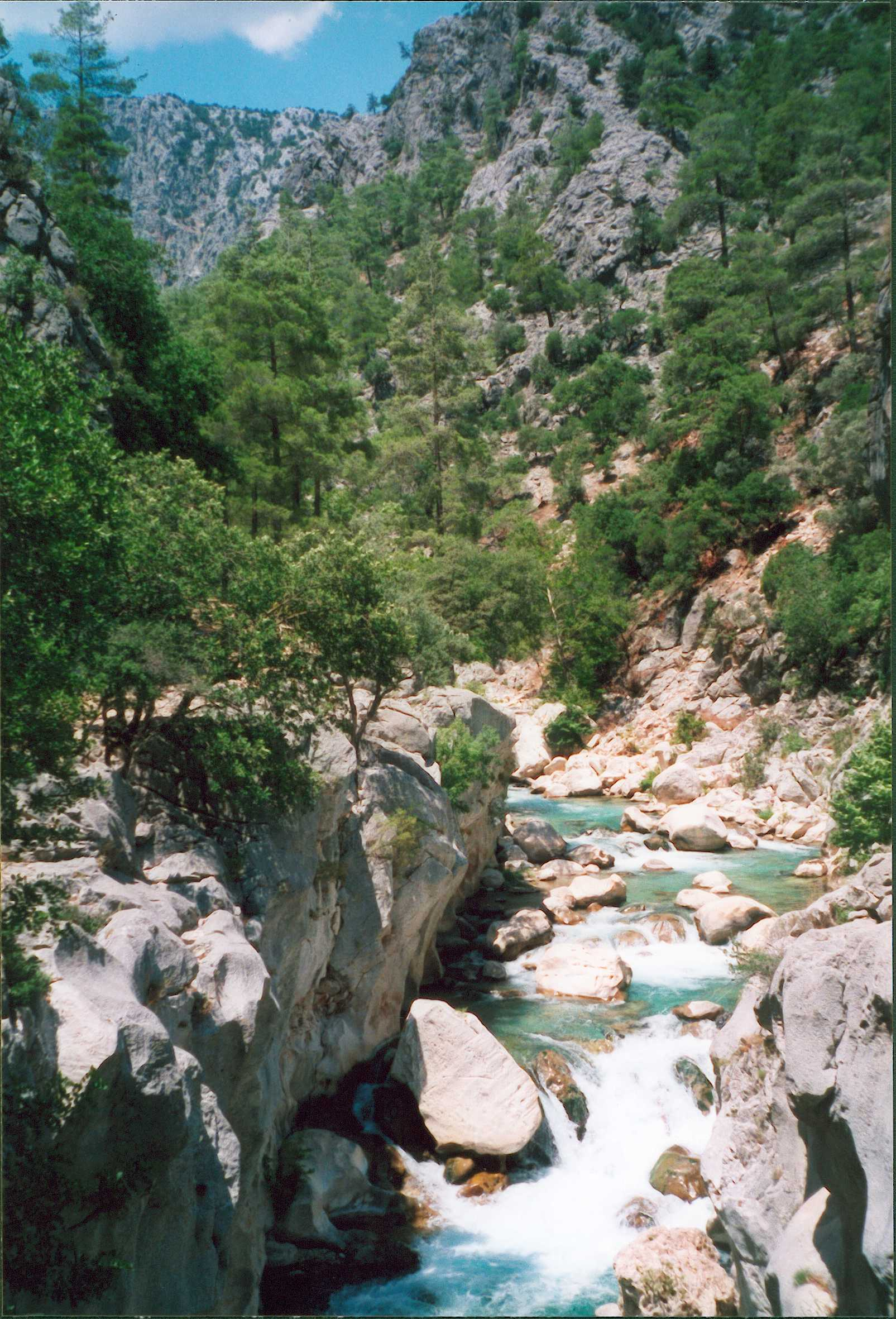 Ihlara Valley (Central-Anatolia, Turkey)